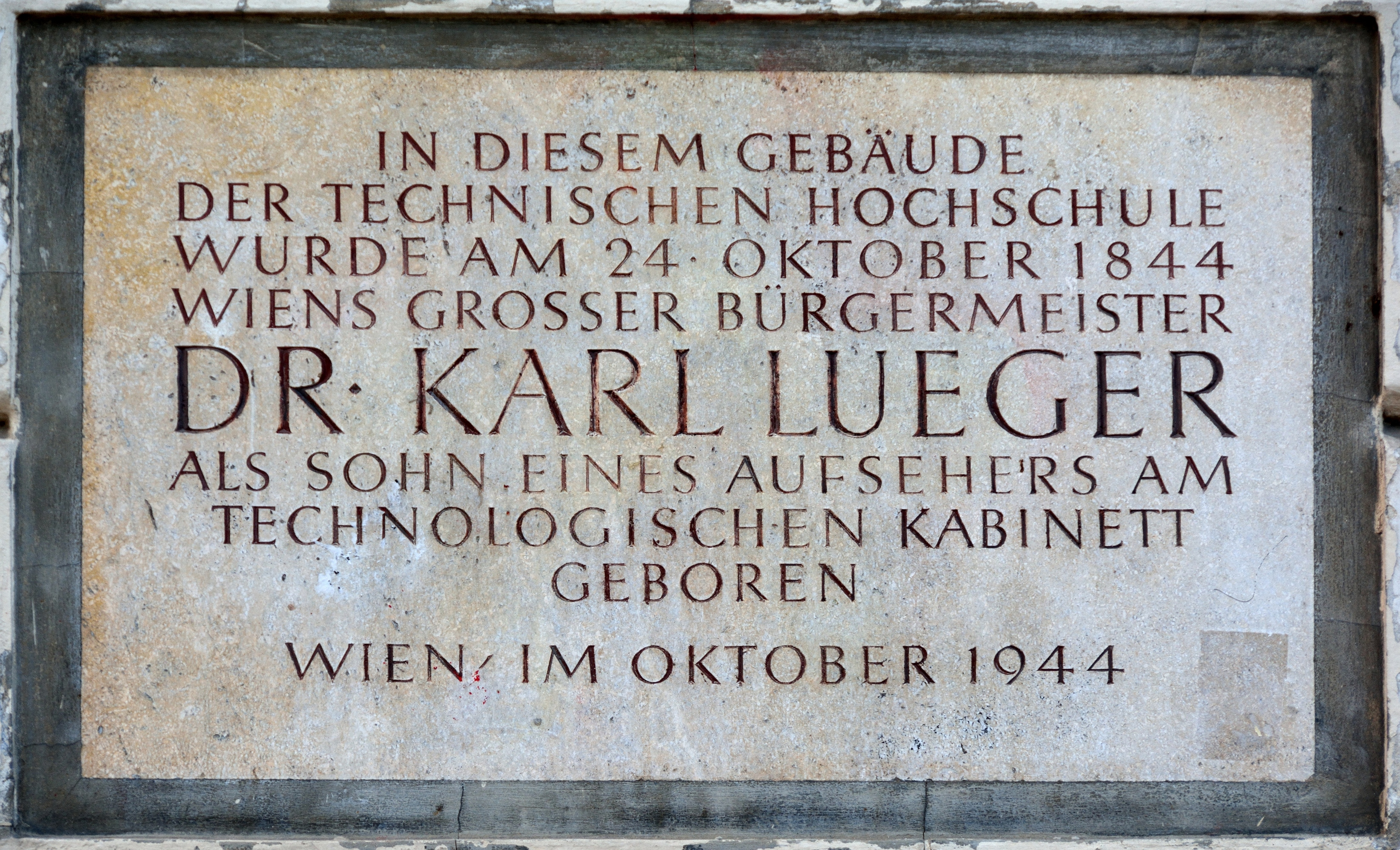 Plaque at Vienna University of Technology, commemorating the birth place of Karl Lueger, a former mayor of Vienna.This image is a view from the year 2014, before the attaching of the information panel 2017.